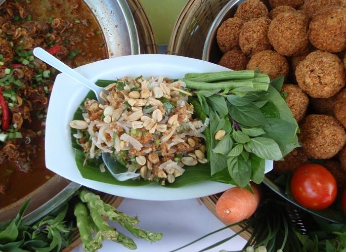 Yam naem, an Isaan snack made with a sausage of fermented raw pork and sticky rice.